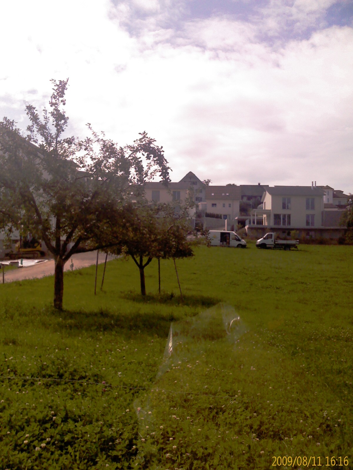 Abtwil, canton of Aargau, SwitzerlandEsperanto: Abtwil, Kantono Argovio, Svislando